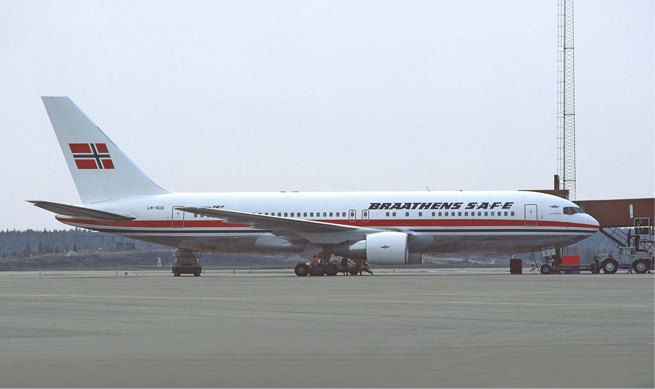 Braathens SAFE Boeing 767-205 LN-SUV at Stockholm-Arlanda Airport